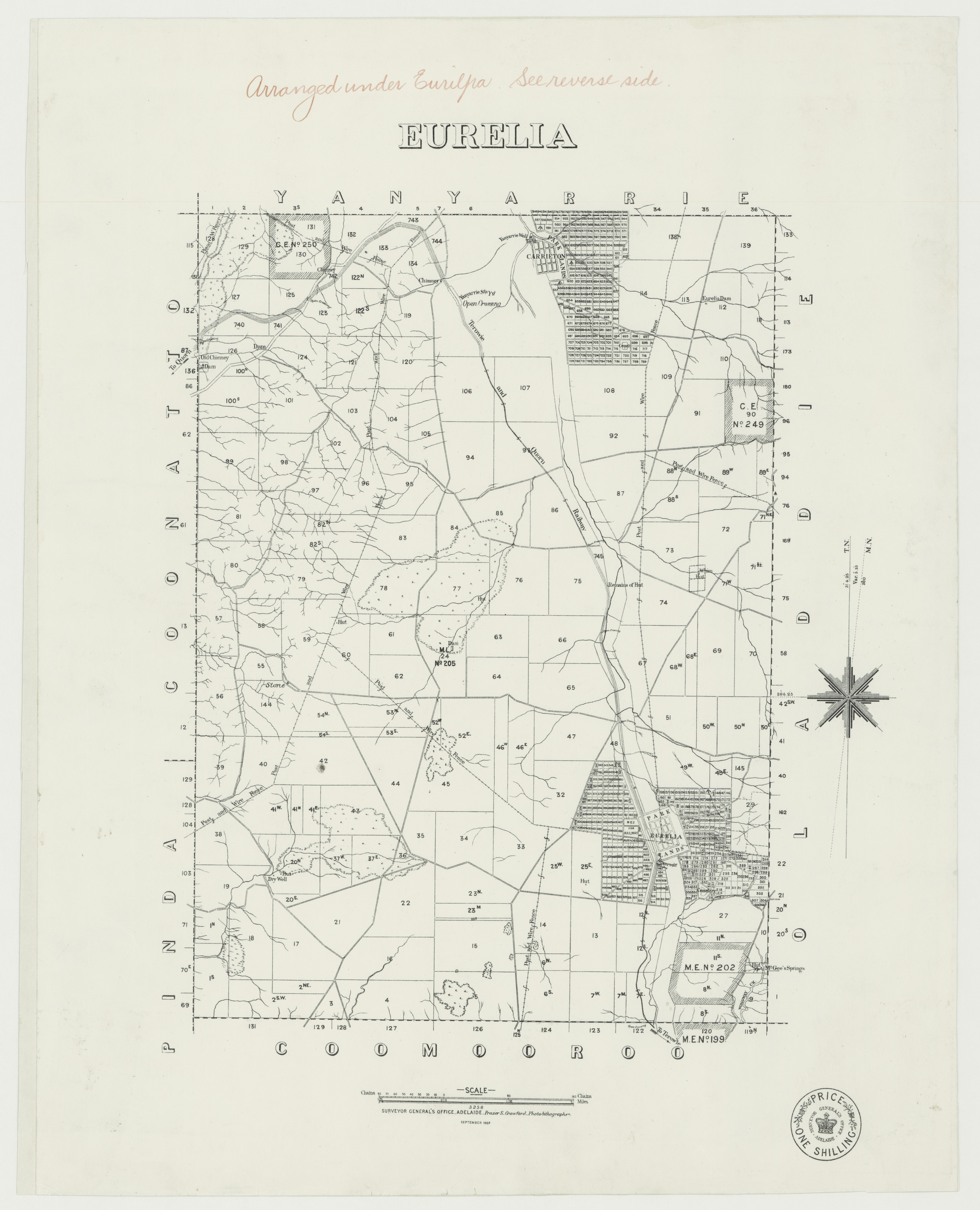 View additional information for this map Filename: map830bje63360_eurelia1889_ds.jpg